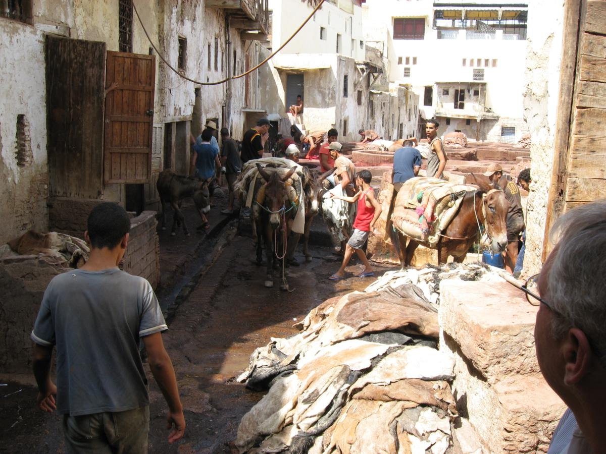 Fes, Old City